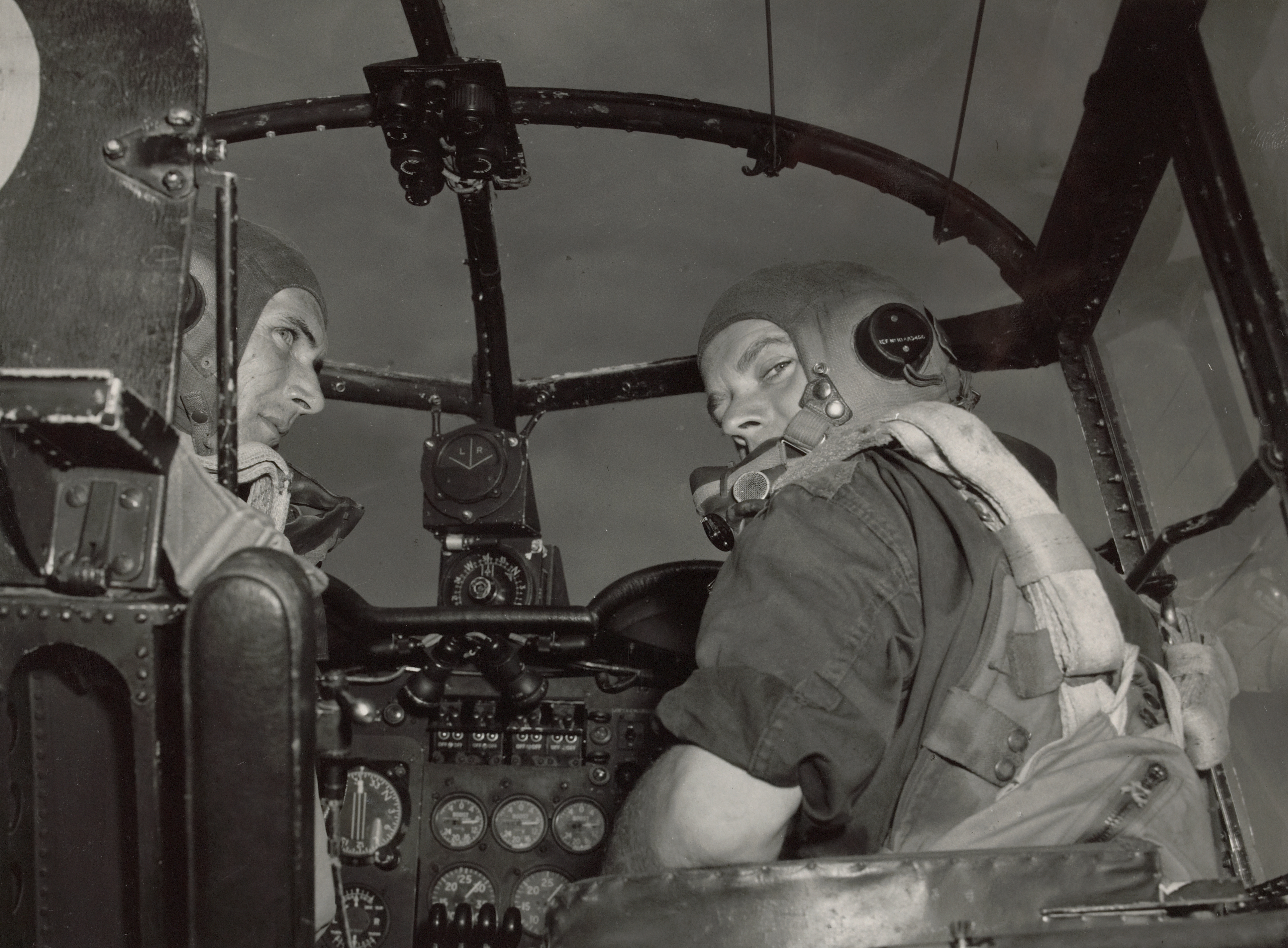 RAAF Avro Lincoln cockpit (photo series taken at Tengah Air Base).